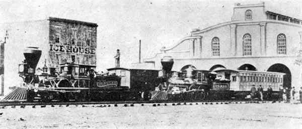 Algiers, Louisiana, 1865. Steam locomotive trains, one of the New Orleans, Opelousas & Great Western Railroad and one of the U.S. Military Railroad are shown at the GNOOGWRR railroad shop yard in Algiers, across the Mississippi River from New Orleans. Ice House in background.